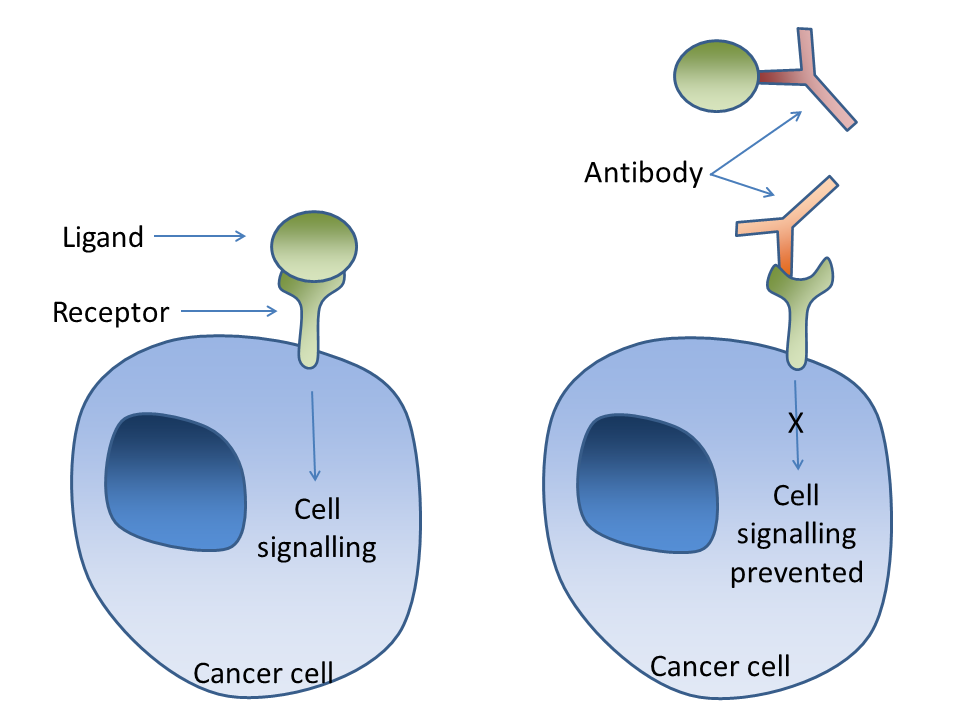 Cell signalling can occur through a ligand binding to a receptor on the cancer cell surface. Antibodies can bind to the ligand (as in bevacizumab-VEGF) or to the receptor (Trastuzumab-Her2/neu) in order to prevent this signalling.